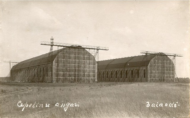 Hangars for airships in Vainode, Latvia